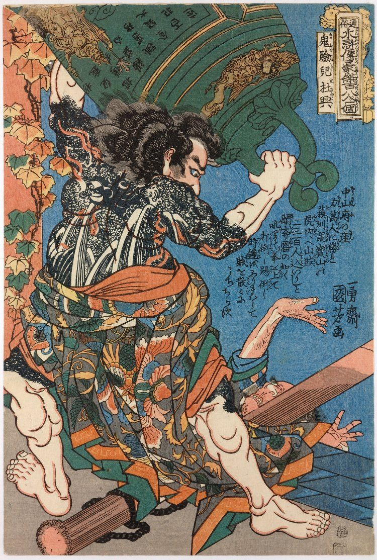 Du Xing (杜興) stripped to the waist and tattooed, lifting a huge temple bell to crush his opponent.